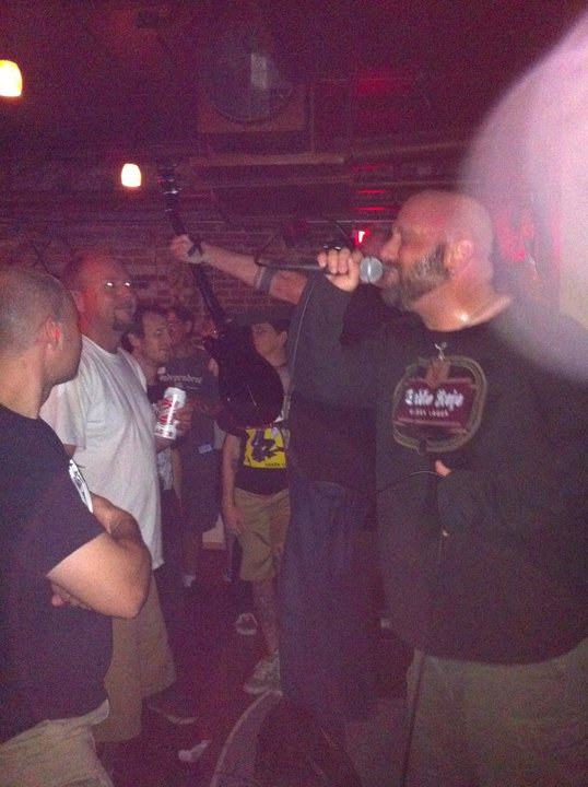 Slap Of Reality, reunion show, 11/26/10, Tampa, FL